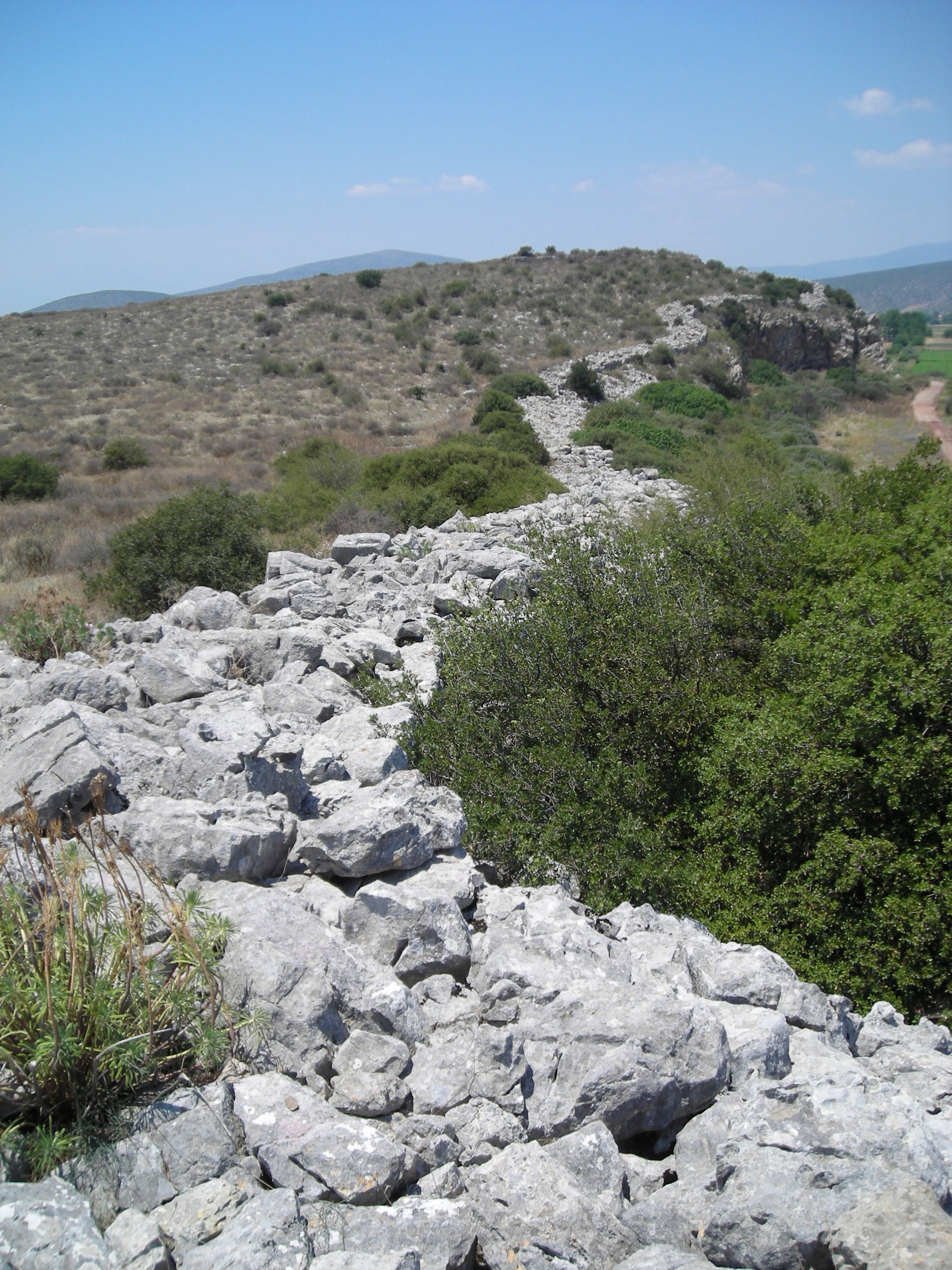 A view of the Northern wall of the fortress of Gla (looking toward the citadel proper).